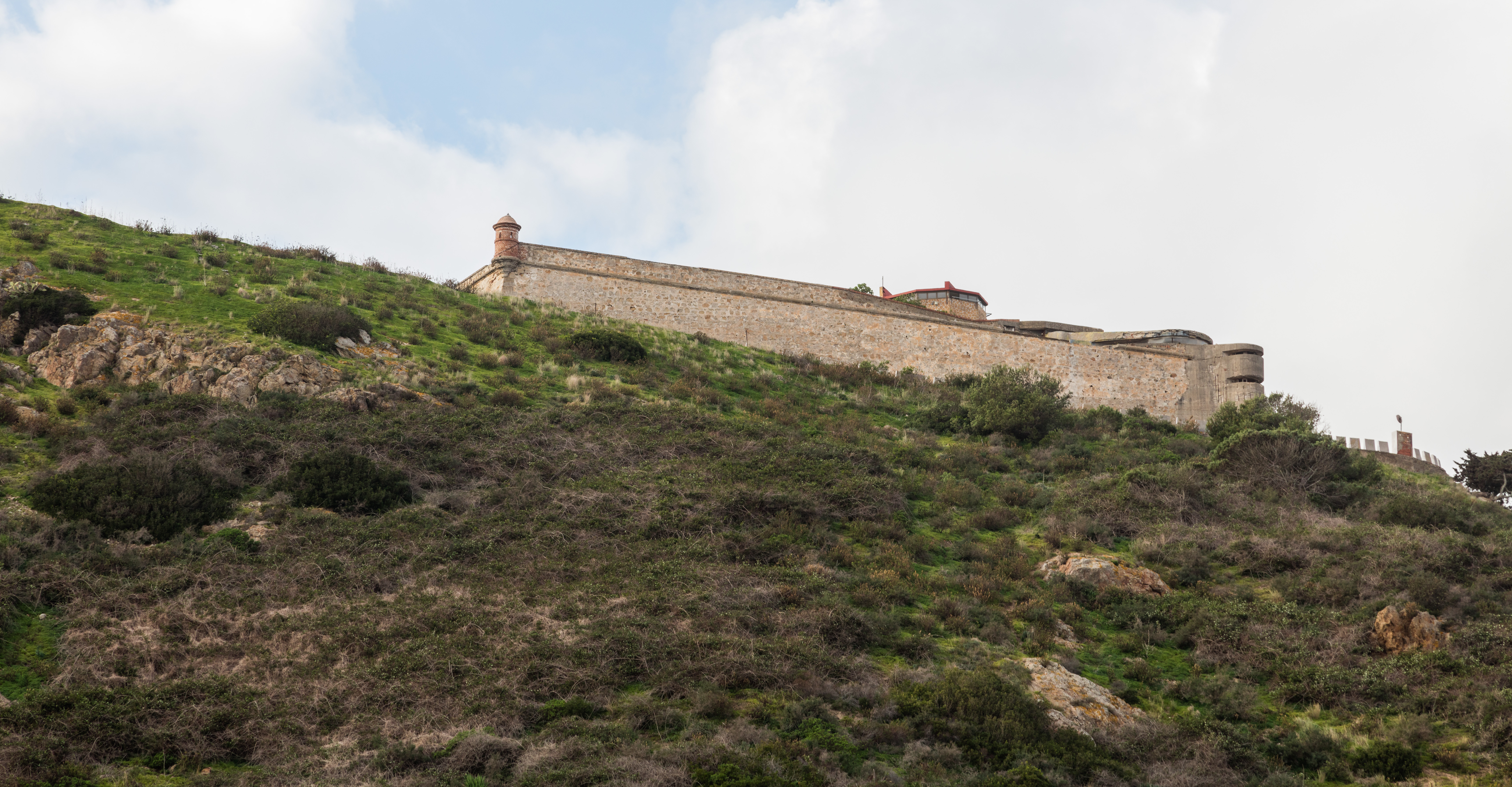 Fortress of Monte Hacho, Ceuta, Spain